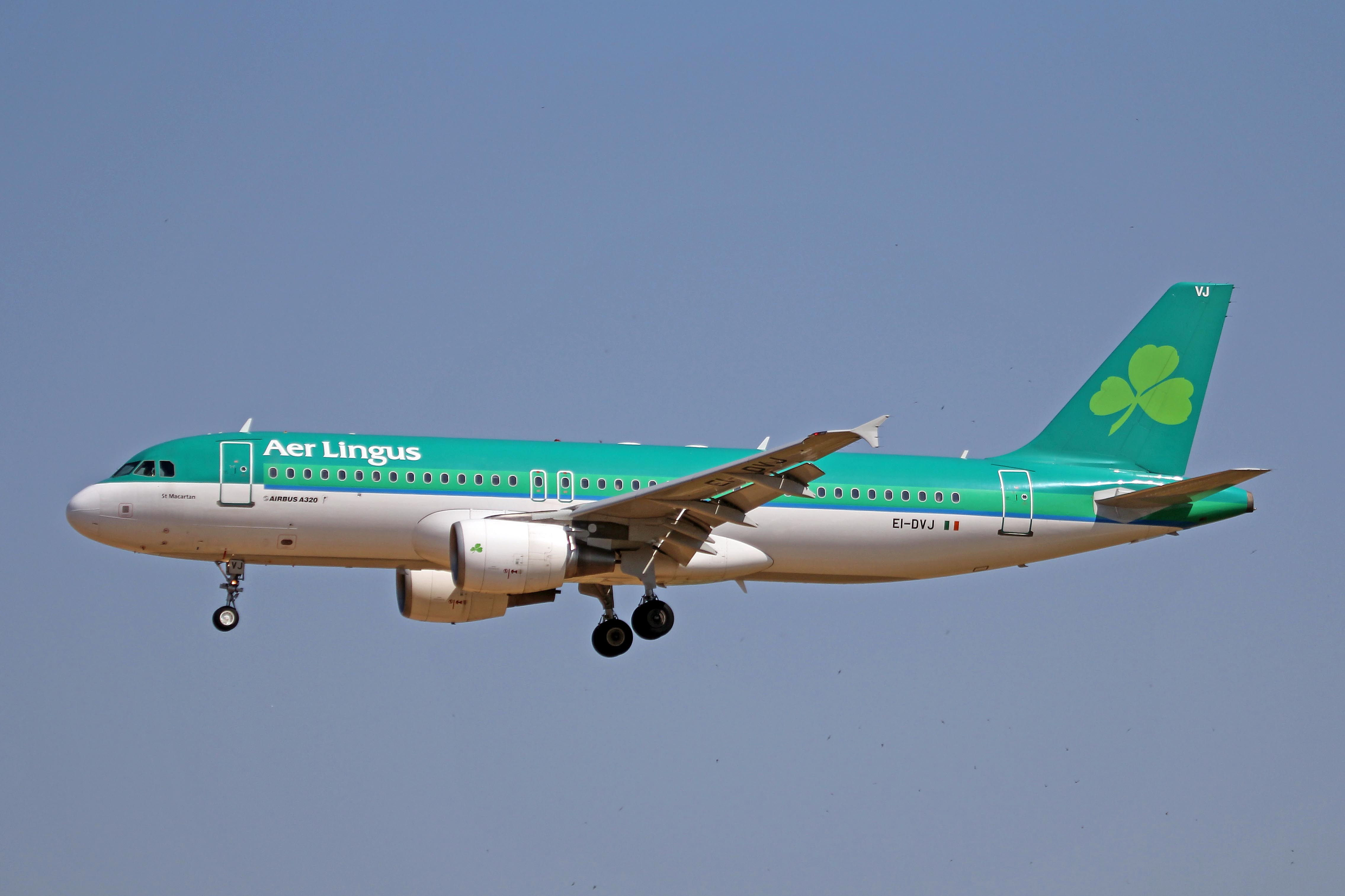 Aer Lingus aircraft at the Palma de Mallorca Airport